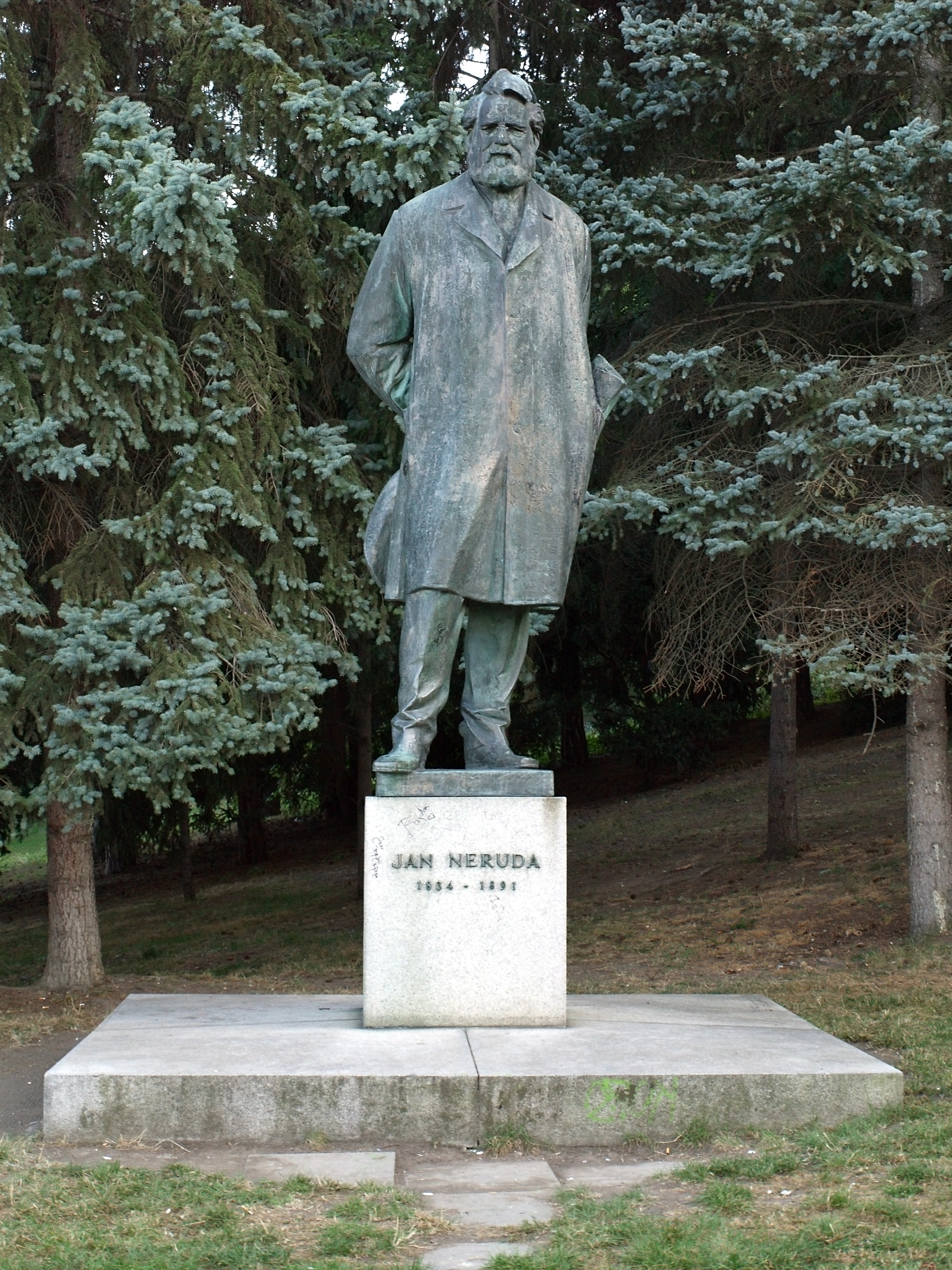 Sculpture of Czech writer Jan Neruda on Prague’s hill Petřín, sculptor Jan Simota (1920–2007)